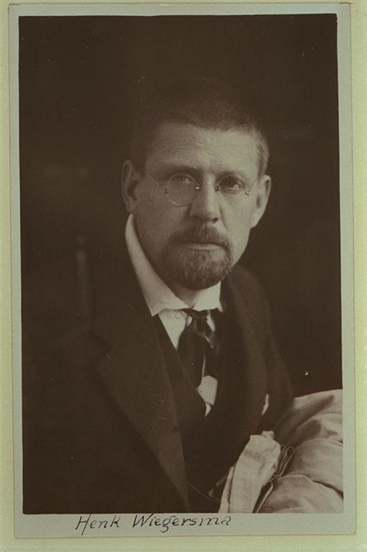 Hendrik Joseph Marie Wiegersma (1891-1969), Dutch doctor and artist